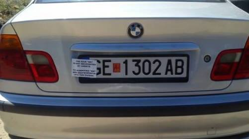 License plate of Macedonia, from the Town of Gevgelija, with greek sticker above the blue strip with automobile code for Macedonia - MK